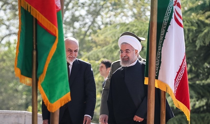 Iranian and Afghan Presidents, Hassan Rouhani and Ashraf Ghani in Saadabad Palace